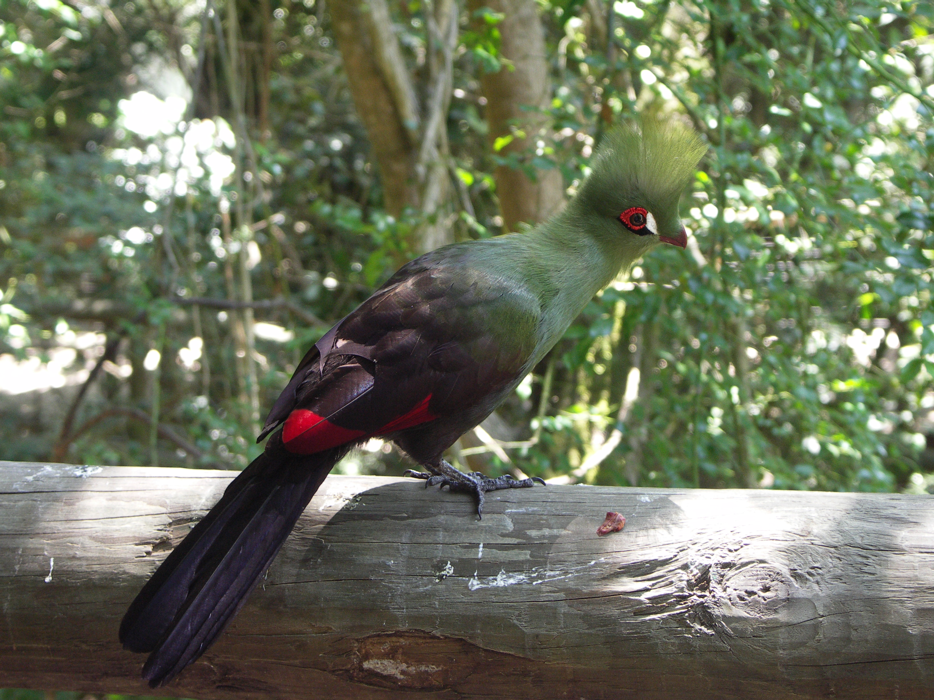 Guinea Turaco at the Birds of Eden Aviary. Western Cape, South Africa.